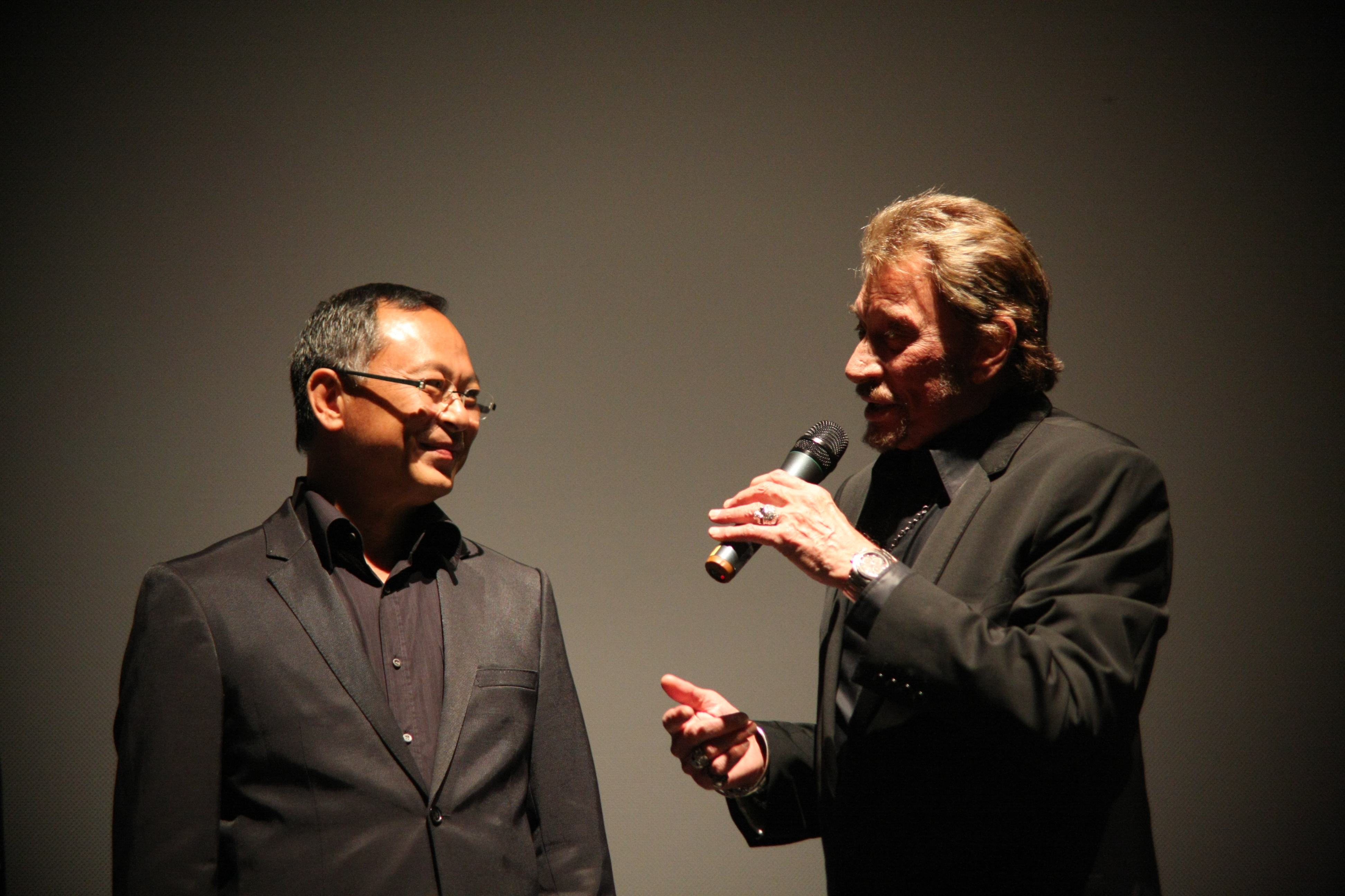 Hallyday talks about how he met up with To. Hallyday owns a restaurant in Paris; To came one day, and over dinner asked him to play a chef in the new film.